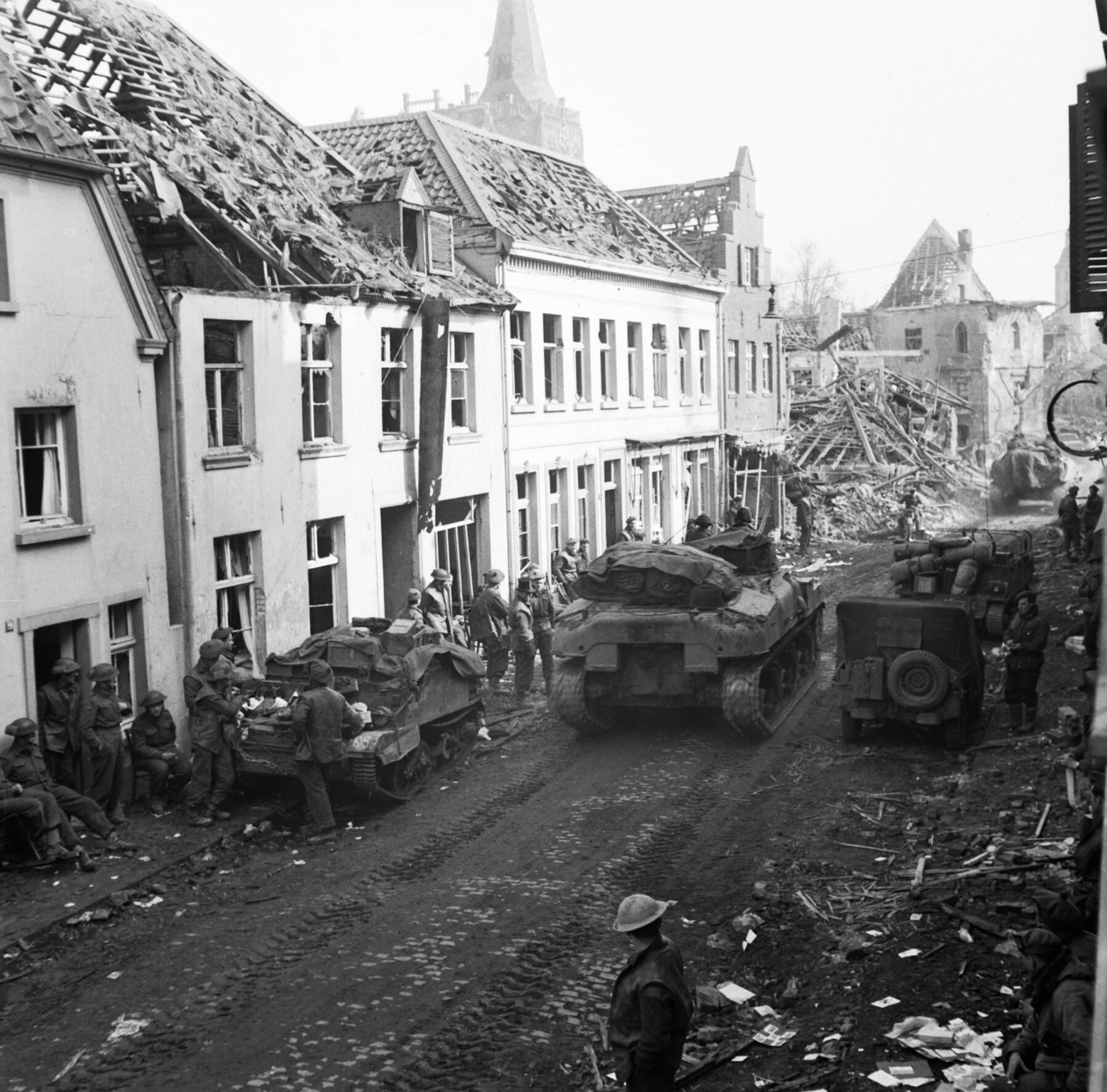 The British Army in North-west Europe 1944-45 43rd (Wessex) Division troops and vehicles in the main street of Xanten, 11 March 1945.